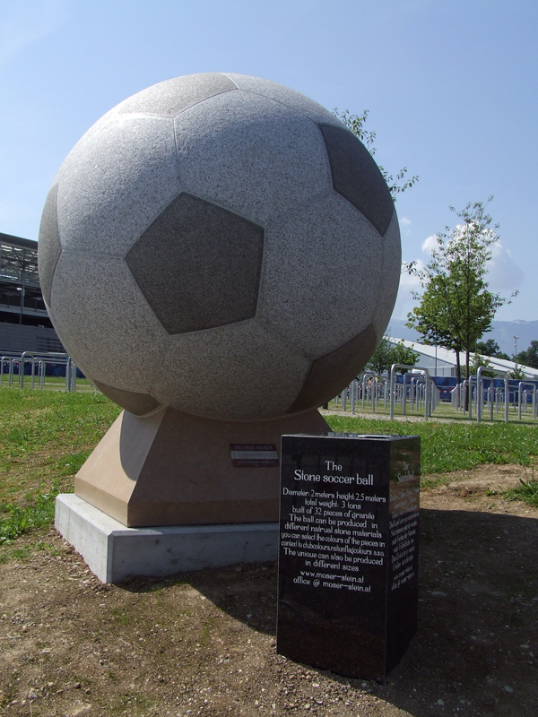 The Stone soccer ball: Diameter: 2 meters, Height: 2,5 meters, Built of 32 pieces of granite, by Helmut Moster, Austria